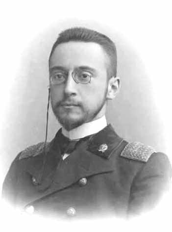 Savodnik